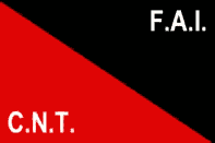 CNT/FAI flag